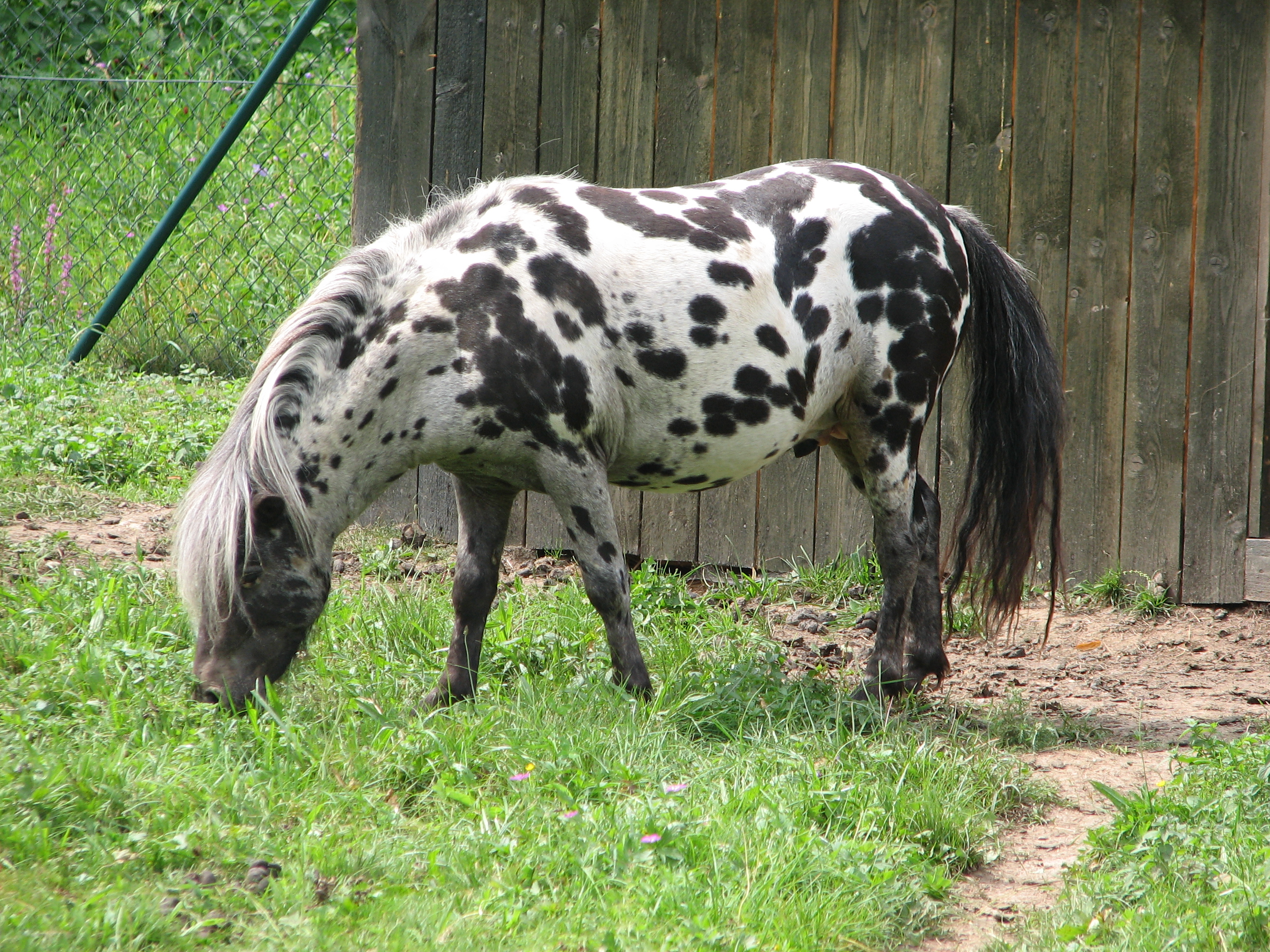 Shetland pony, Častolovice castle, Czech Republic